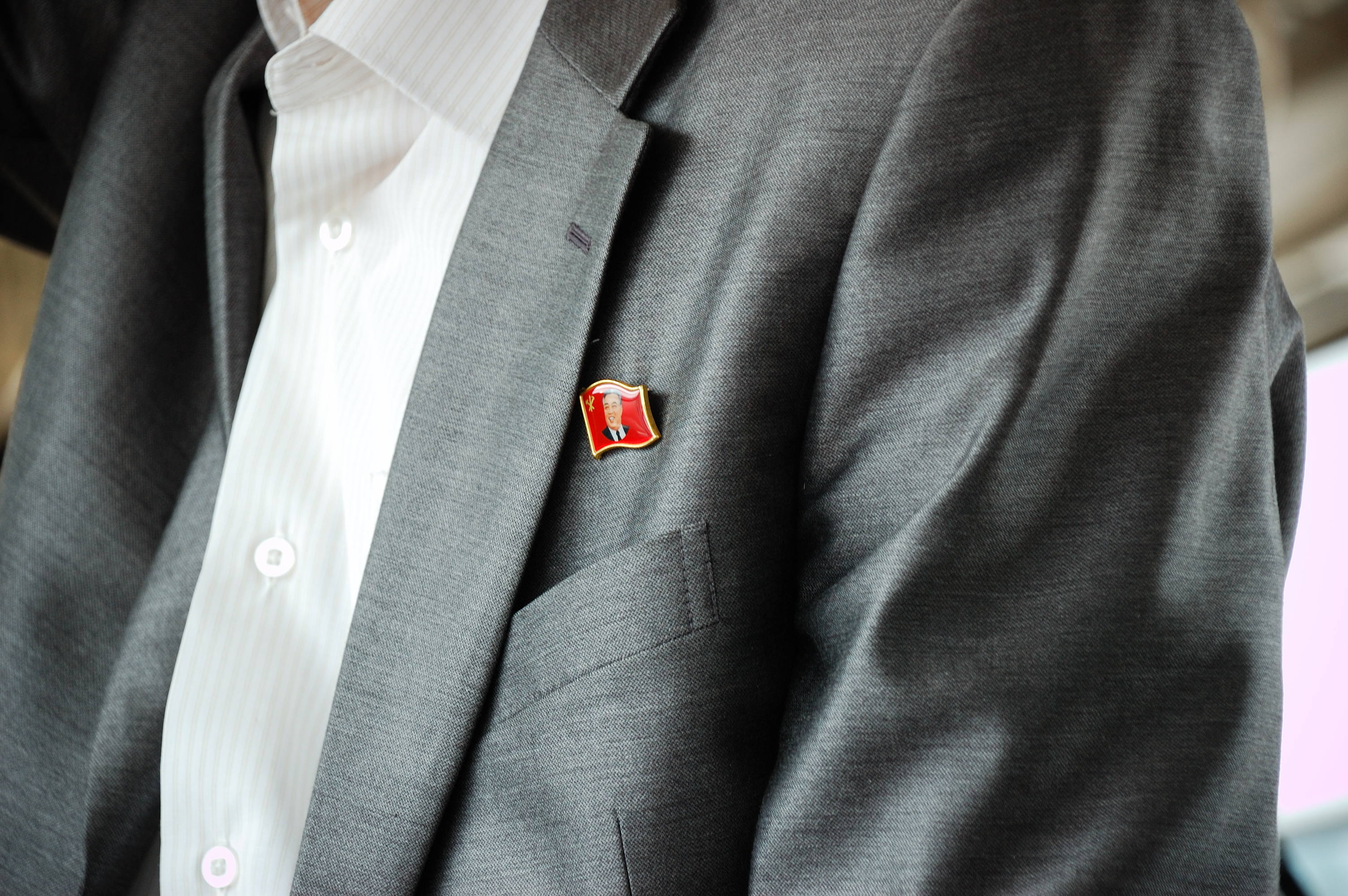 Trip to North Korea in June, 2008